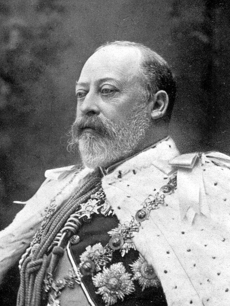 King Edward VII of the United Kingdom (1841-1910) in 1902.